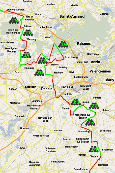 Map of Paris-Roubaix 2017: part 3